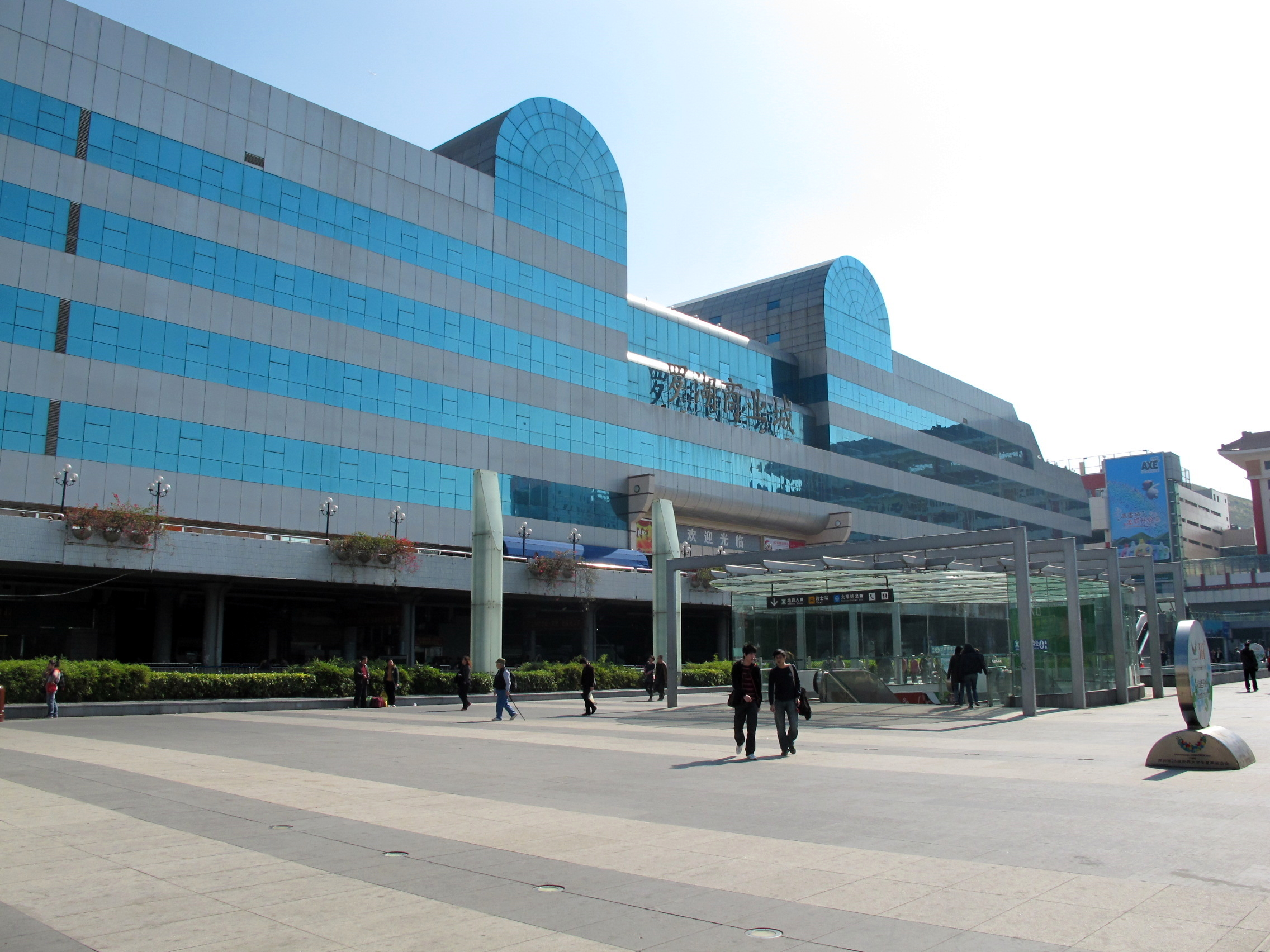 Luo Hu Commercial City 羅湖商業城